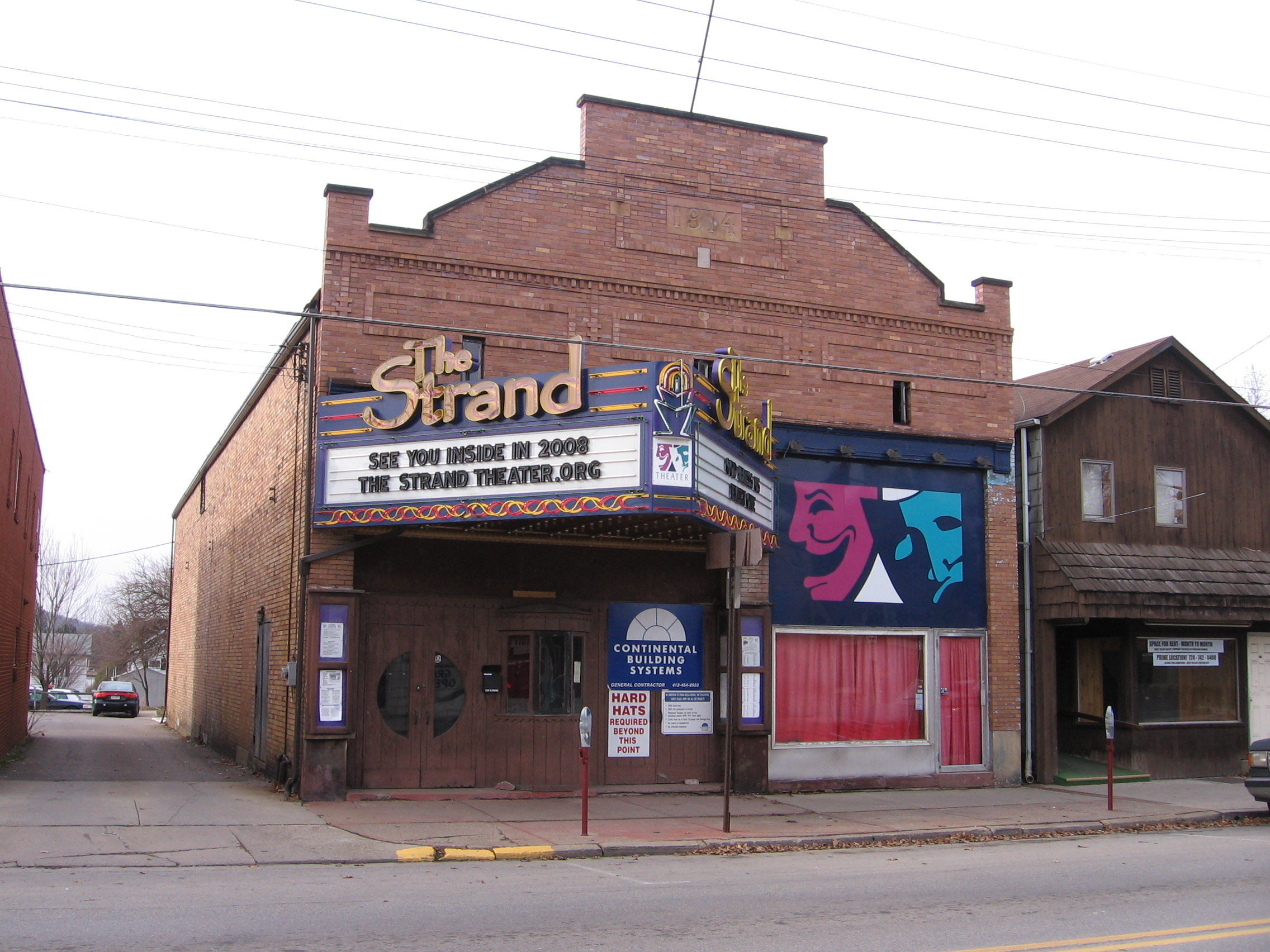 Strand Theater